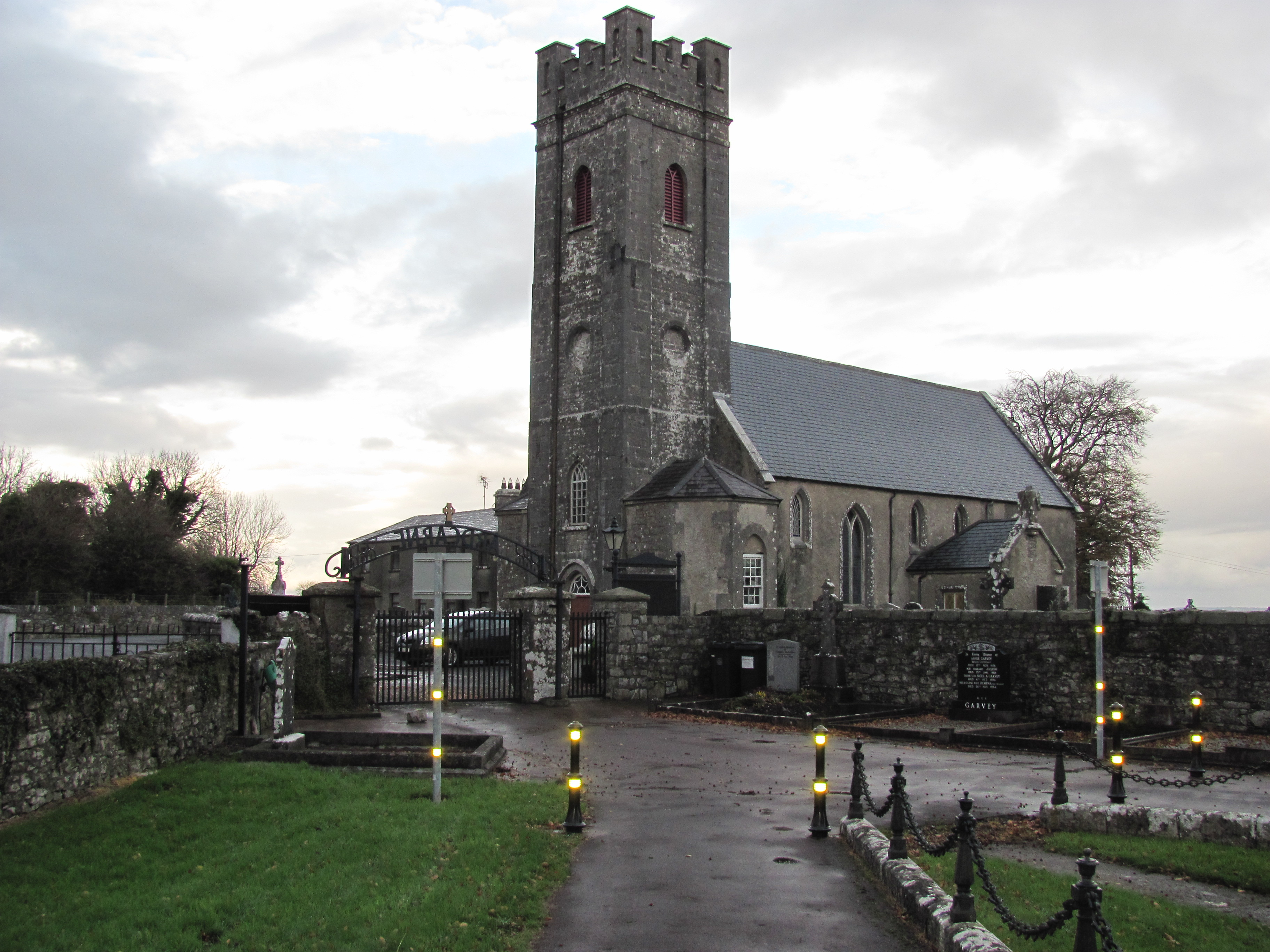 Ardcane Church, County Roscommon